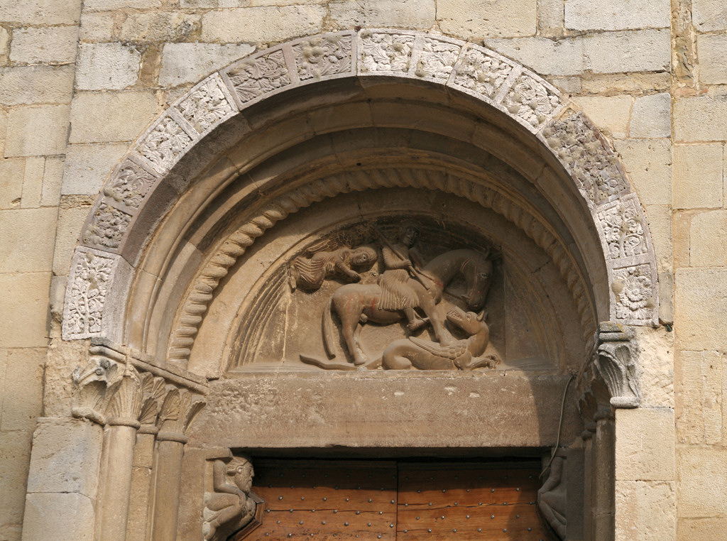 San Giorgio, Vigoleno (PC), Italy